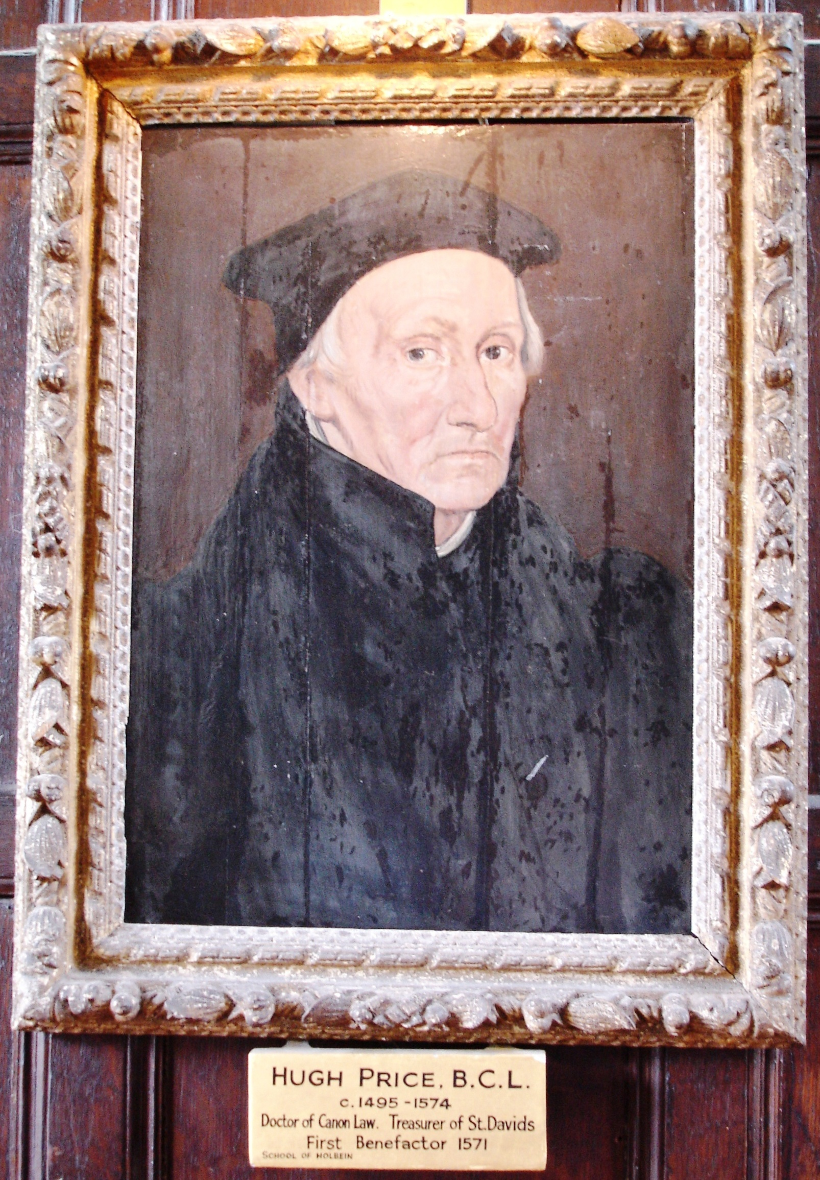 Portrait of Hugh Price (died 1574), founder of Jesus College, in the college hall. Painting by the school of Hans Holbein the Younger